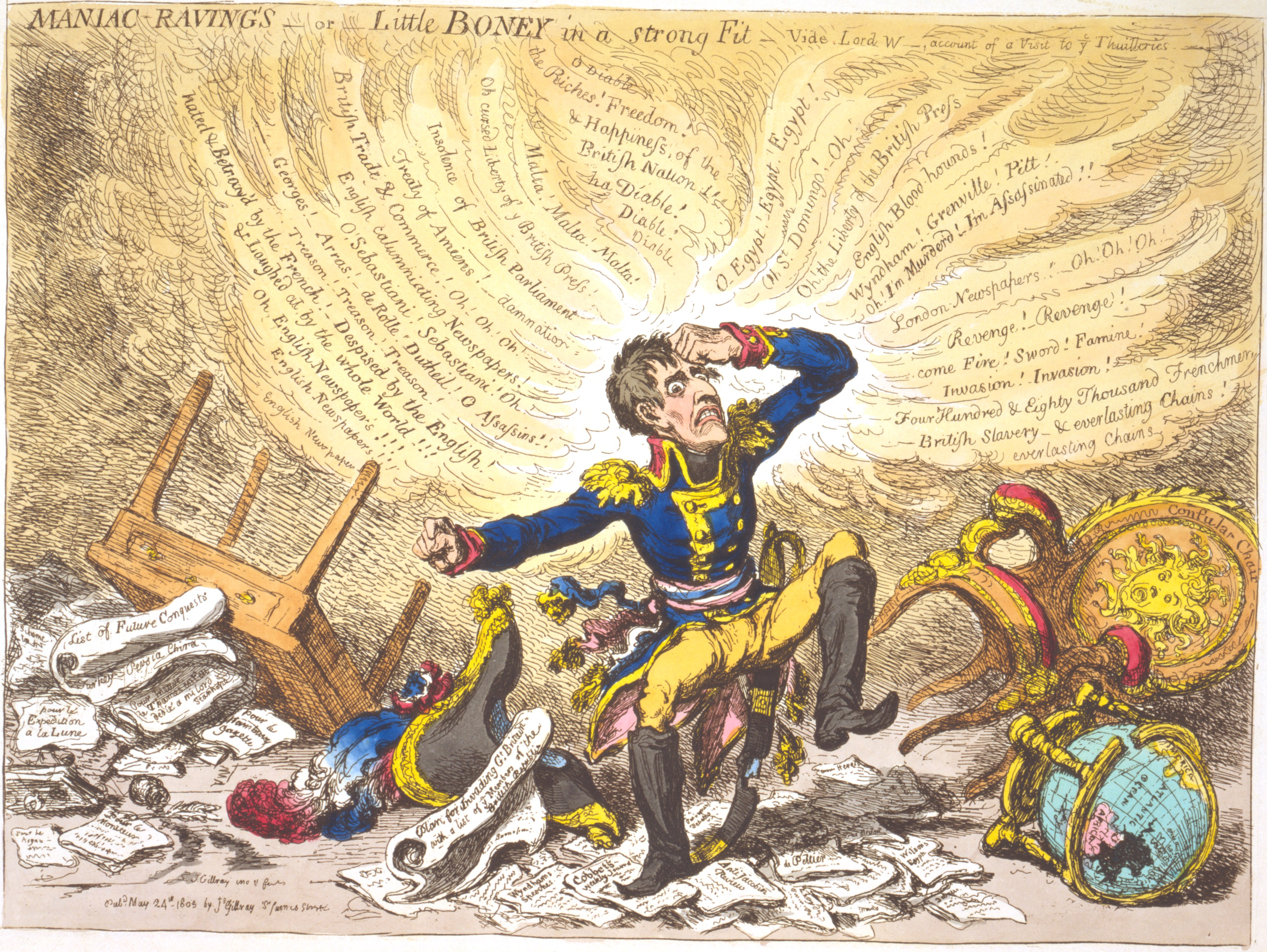 Maniac-raving's-or-Little Boney in a strong fit / Js. Gillray inv. & fect. SUMMARY: Cartoon showing Napoleon in a fury over relations between France and England. MEDIUM: 1 print : etching, hand-colored. CREATED/PUBLISHED: [London] : pubd. by Js. Gillray, 1803. According to Wright & Evans, Historical and Descriptive Account of the Caricatures of James Gillray (1851, OCLC 59510372), p. 227, "A parody on Lord Whitworth's dispatch of the 14th of March, 1803, describing the violent scene which had occurred the day before at the Tuilleries. 'The exasperation and fury of Buonaparte,' says the Annual Register for the year just mentioned, 'broke out into ungovernable rage at his own Court, on his public day, and in the presence ofthe diplomatic body of Europe there assembled. Thus violating every principle of hospitality—of decorum—of politeness—and the privileges of Ambassadors—ever before held sacred. On the appearance of Lord Whitworth in the circle, he approached him with equal agitation and ferocity, proceeded to descant, in the bitterest terms, on the conduct of the English Government—summoned the Ministers of some of the Foreign Courts to be witnesses to this vituperative harangue—and concluded by expressions of the most angry and menacing hostility. The English Ambassador did not think it advisable to make any answer to this brutal and ungentlemanly attack, and it terminated by the First Consul retiring to his apartments, repeating his last phrases, till he had shut himself in; leaving nearly two hundred spectators of this wanton display of arrogant impropriety, in amazement and consternation.'"